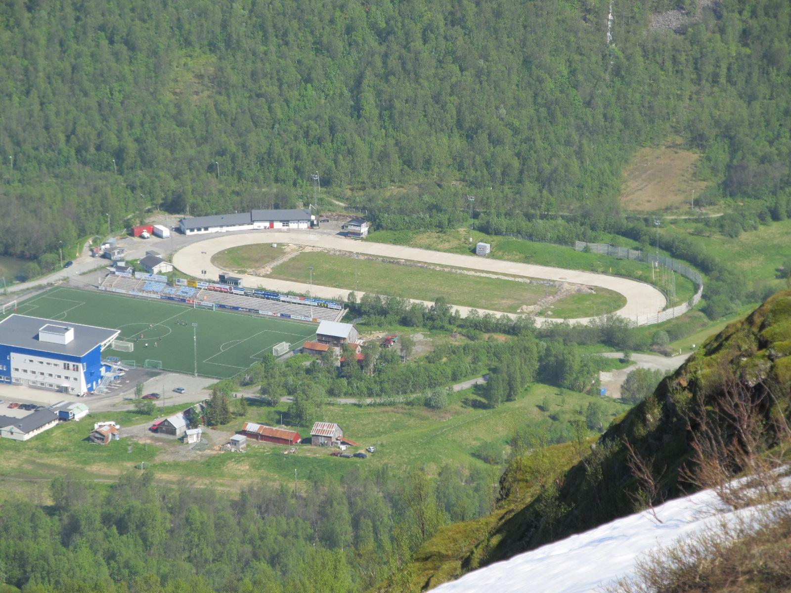 Tromso, Norway, onboard Costa Deliziosa (19)